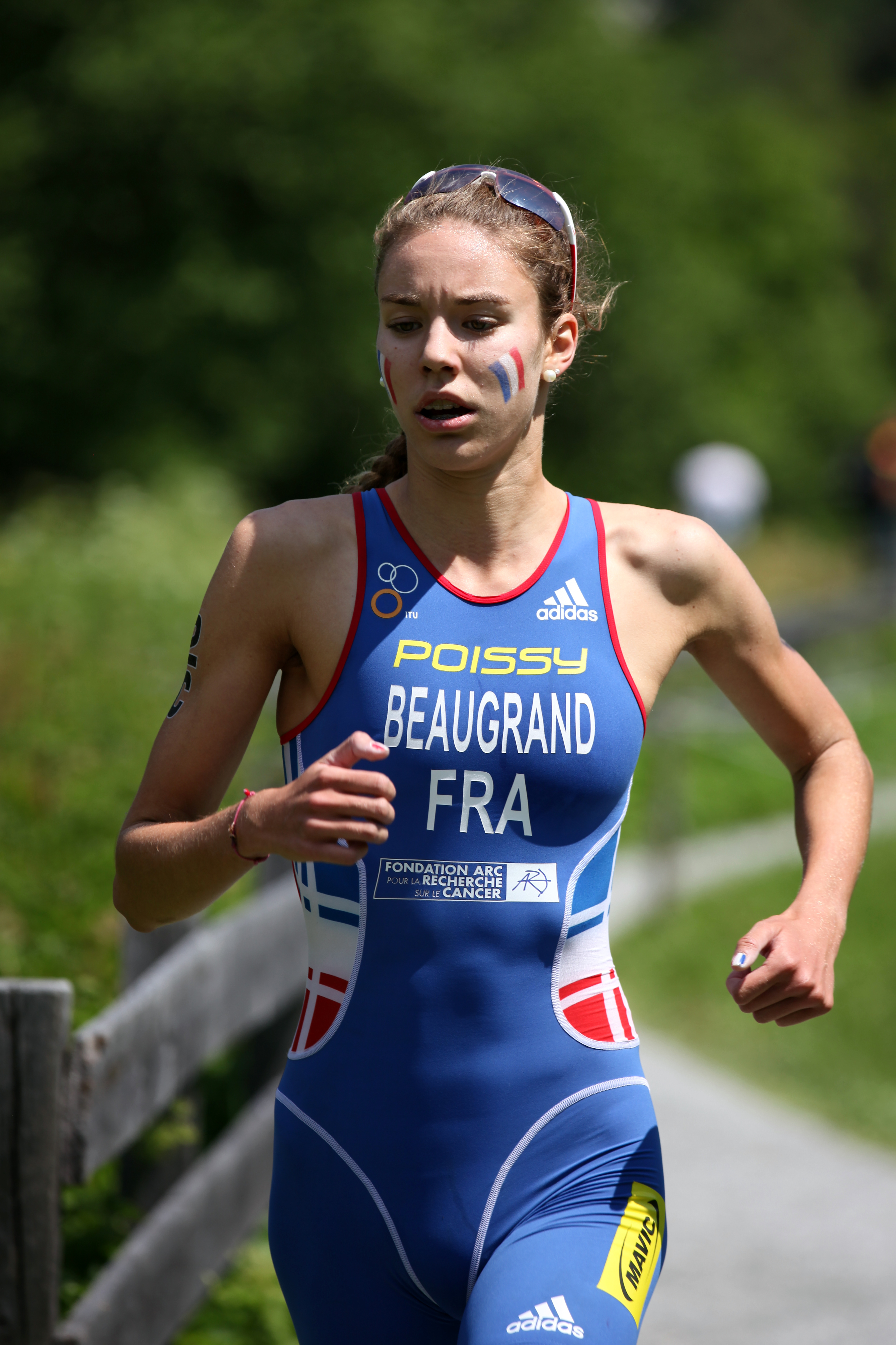 Cassandre Beaugrand at the triathlon European Championships in Kitzbuhel.